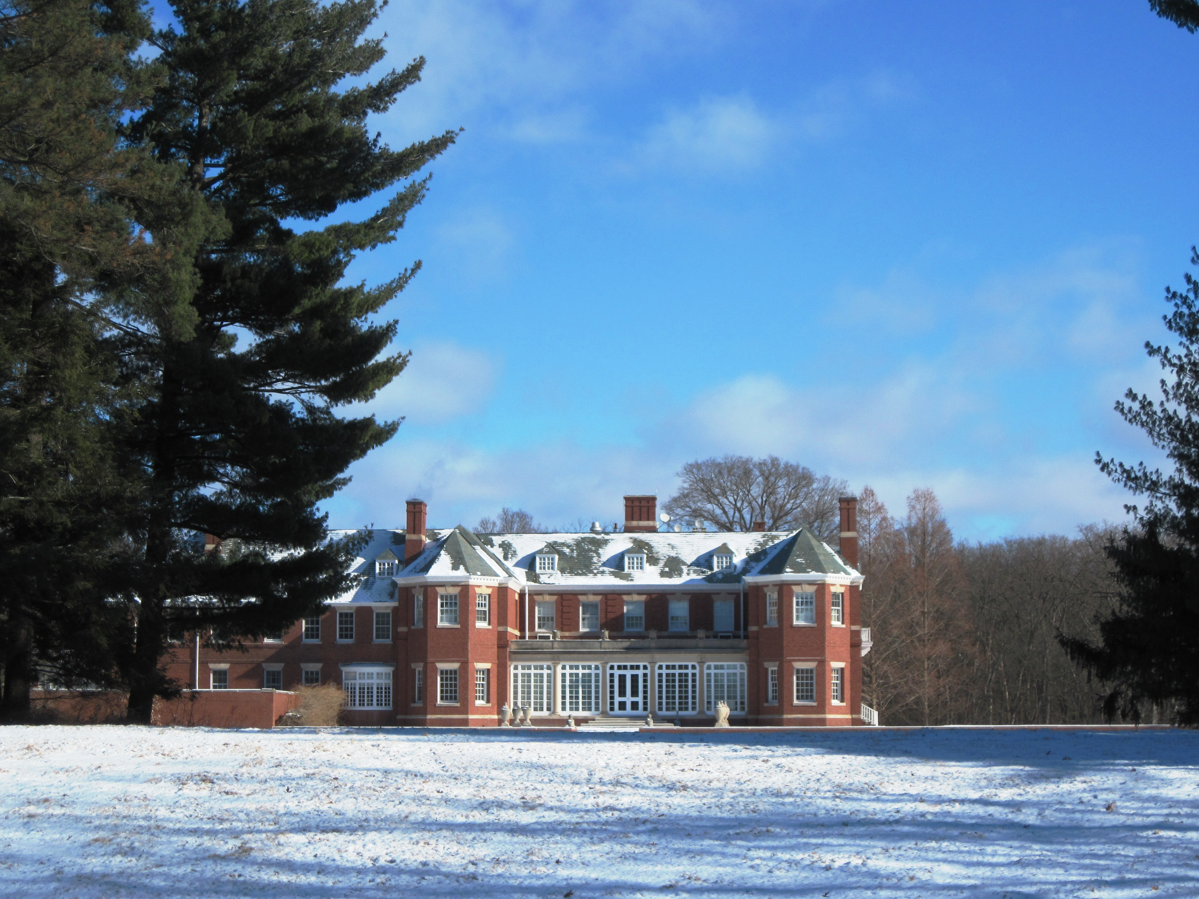 Robert Allerton Estate, 515 Old Timber Rd. Monticello